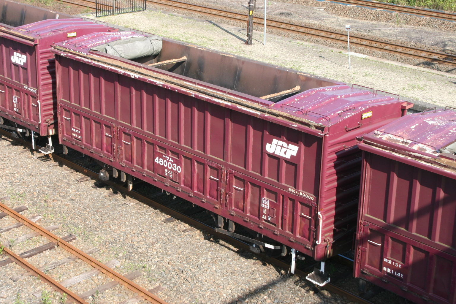 Freight cars series "WAMU-80000" used for wood-chips transportation. Picture taken at Hagino station, Hokkaido, Japan.